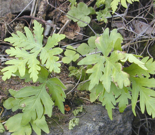 Fern with simple, lobed fronds. Photo taken by Eric Guinther and contributed to Wikipedia.